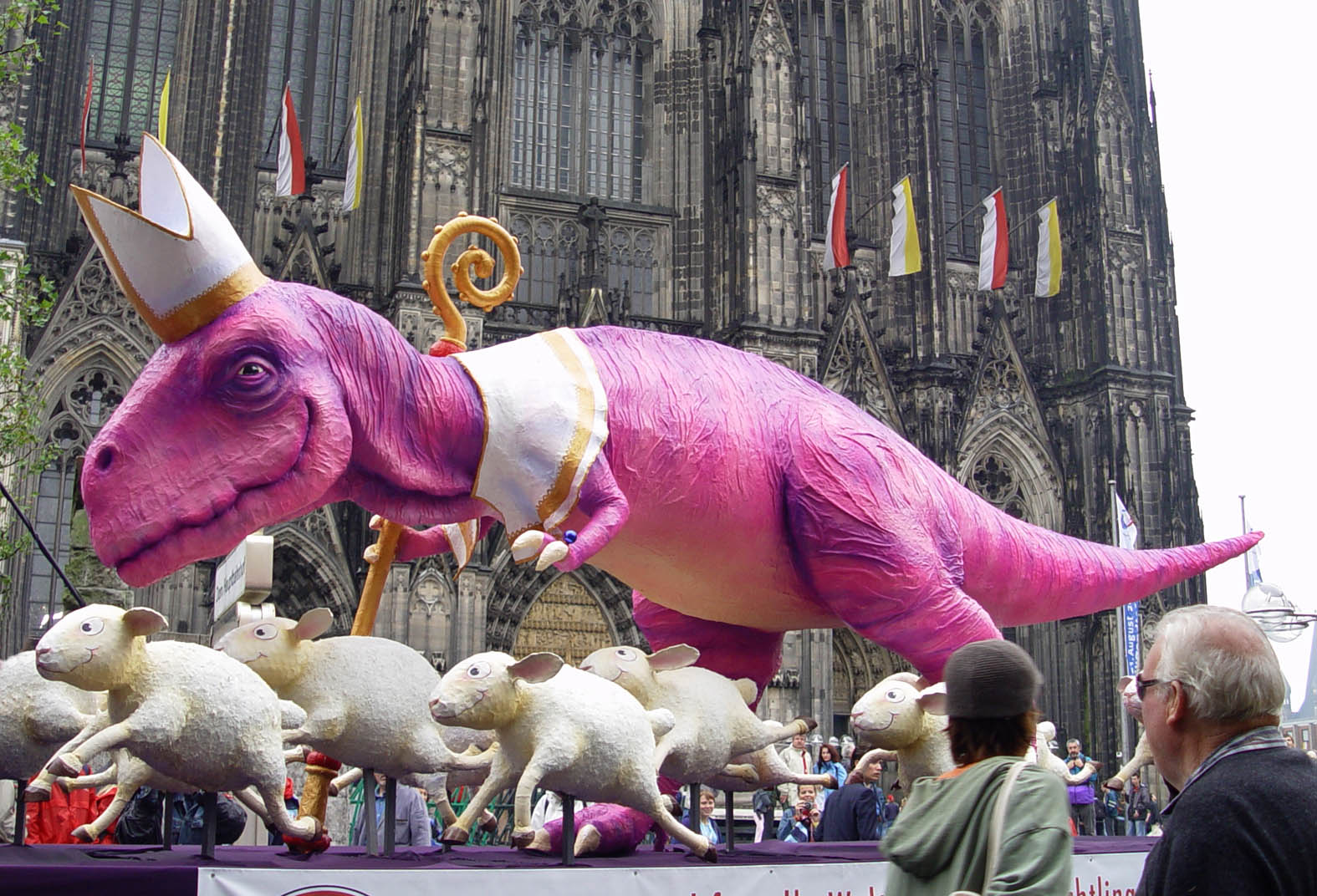 A sculpture of a caricatured dinosaur and sheeps (10 meters long and 4 meters tall) as criticism of the catholic church and the pope Benedict XVI, shown at the 2005 Weltjugendtag (WJT, World Youth Day) in Cologne, Germany.